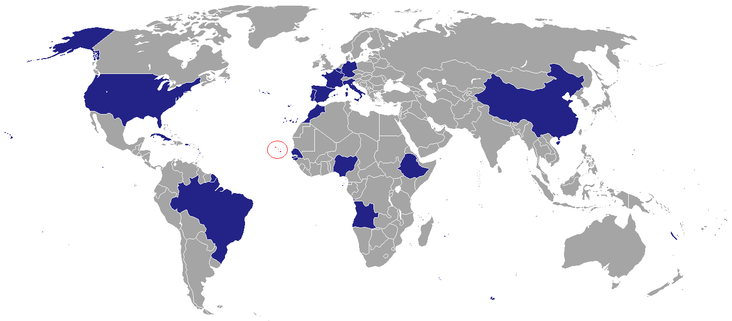 Map of countries with Cape Verdean embassies Cape Verde Embassy